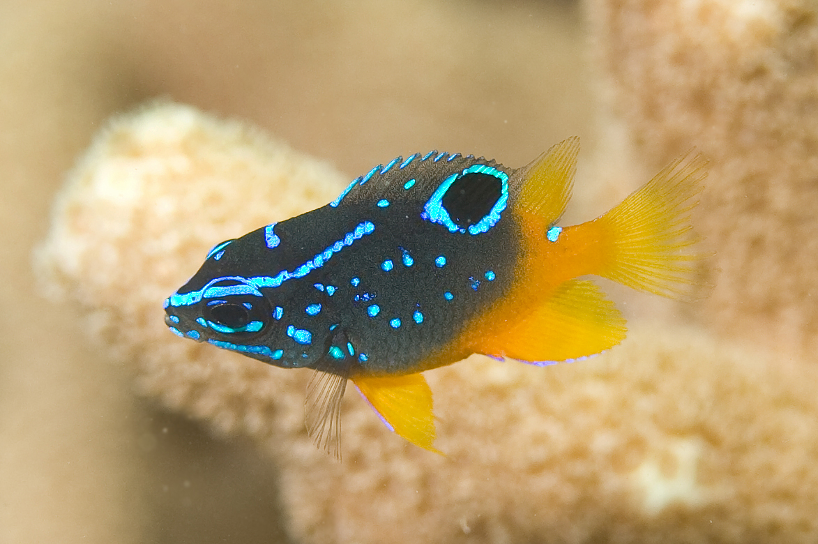 A juvenile Lagoon Damsel, Hemiglyphidodon plagiometopon, at Iriomote Island, Okinawa, Japan, depth 10 m